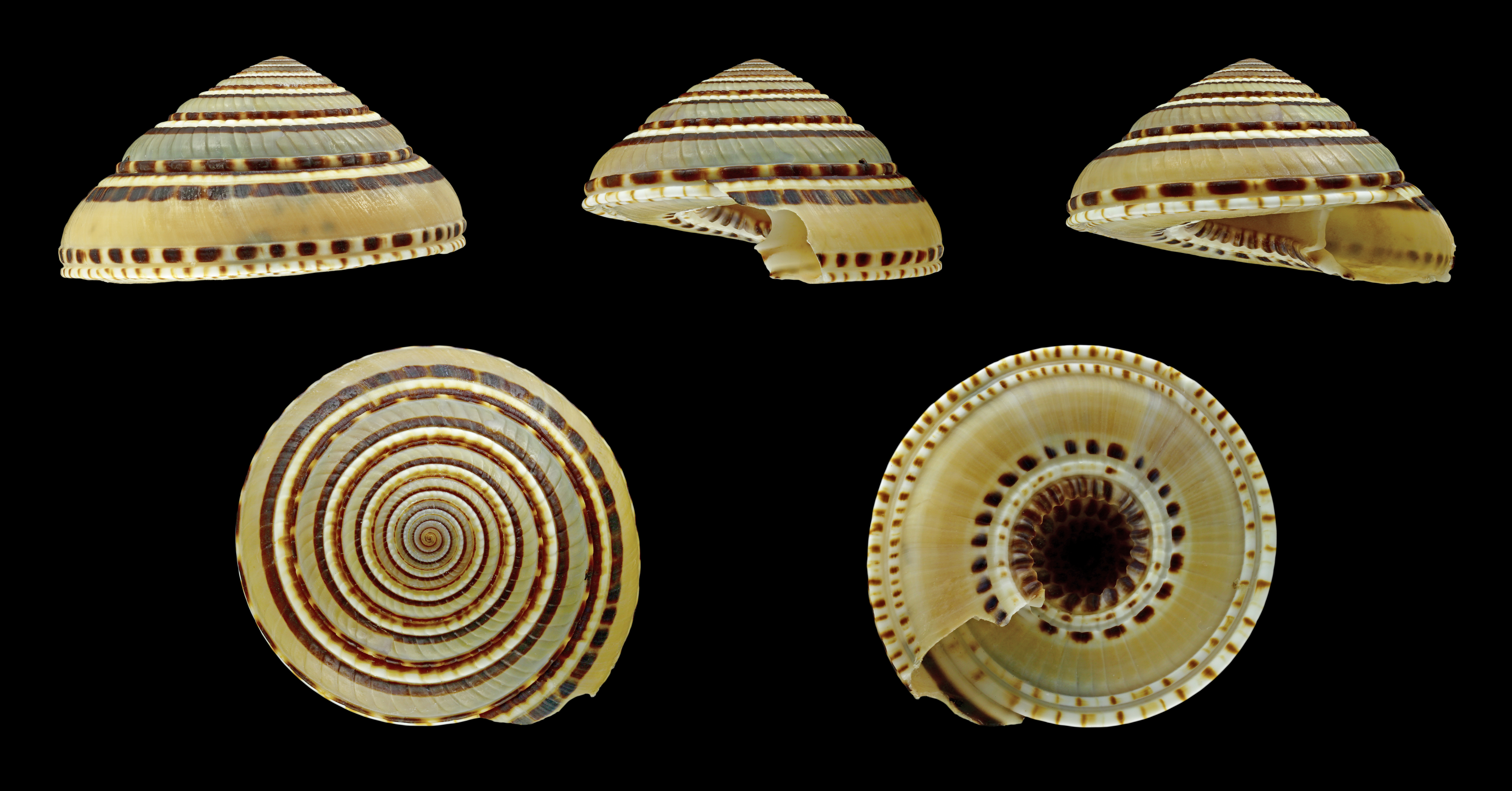 Clear Sundial; Diameter 4.0 cm; Originating from the Philippines